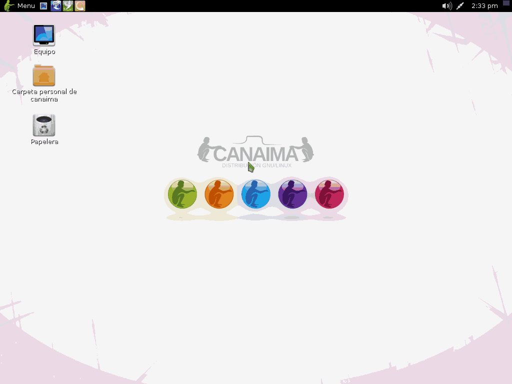 Canaima 5.0 screenshot